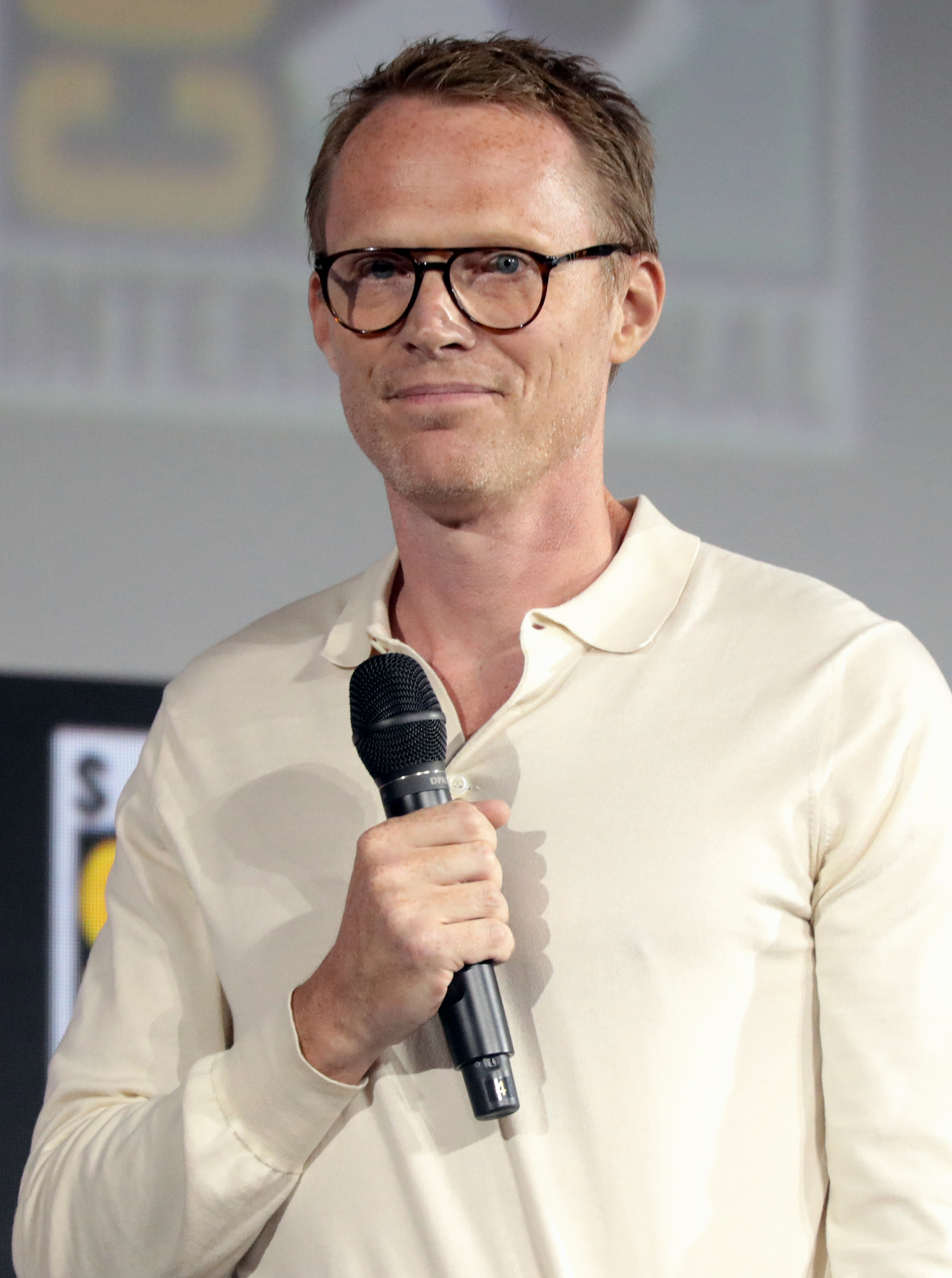 Paul Bettany speaking at the 2019 San Diego Comic-Con International in San Diego, California.